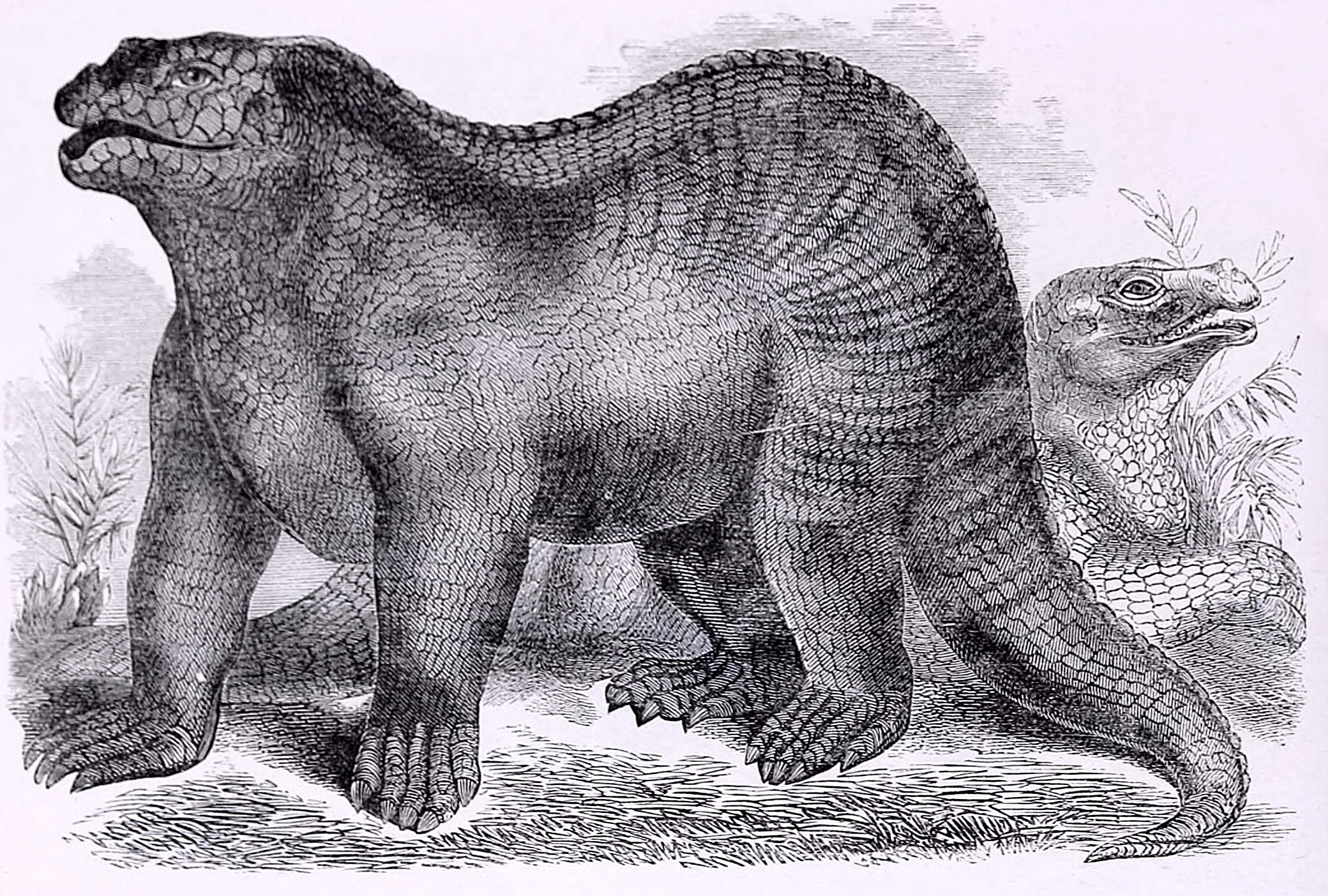 Reconstruction of Iguanodon by Samuel Griswold Goodrich from Illustrated Natural History of the Animal Kingdom (New York: Derby & Jackson, 1859).